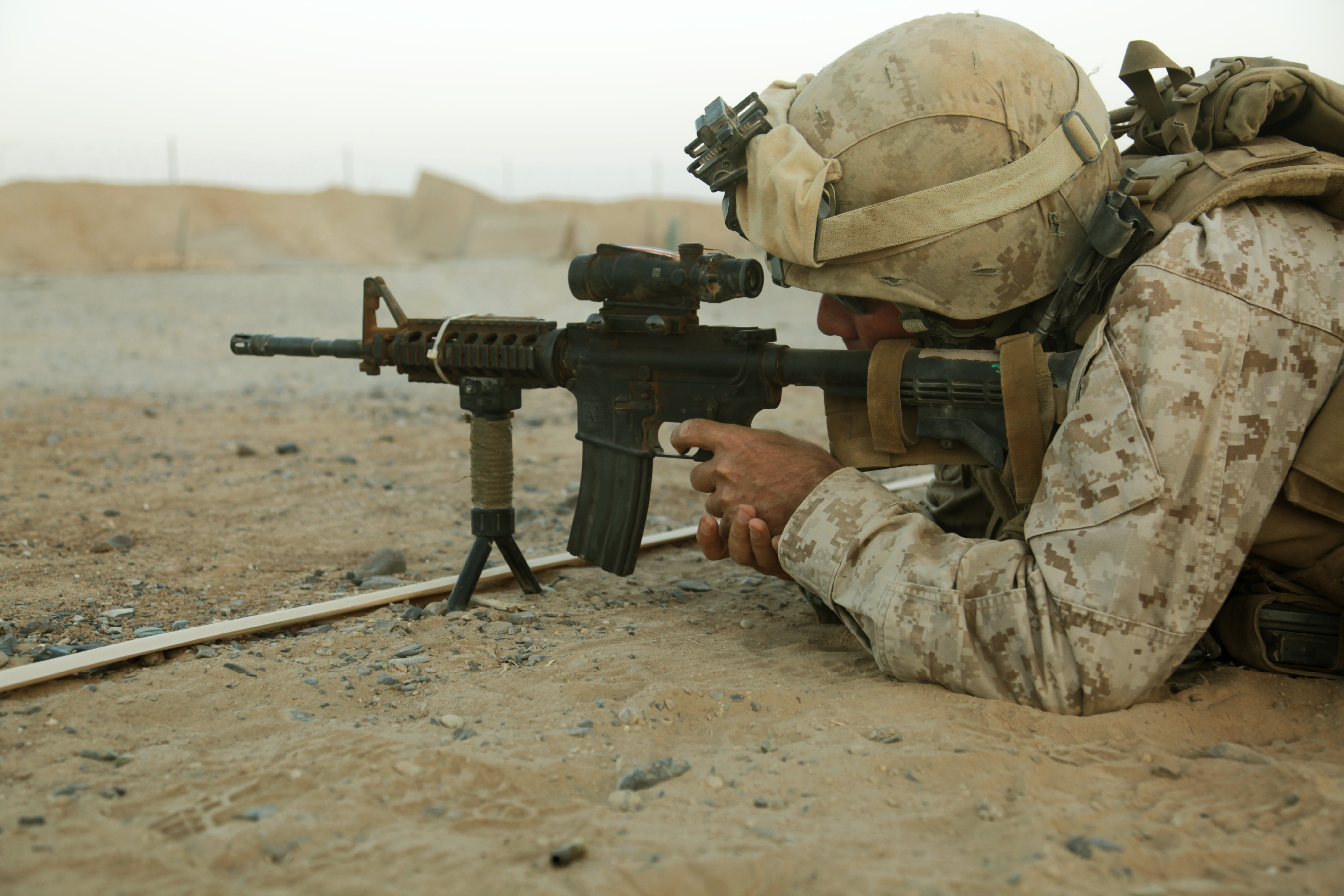 U.S. Marine Corps Chief Warrant Officer 4 Phil Chasse, a regimental information operations officer with Headquarters Company, Regimental Combat Team (RCT) 3, fires an M-4 carbine rifle during live-fire training at Camp Dwyer, Helmand province, Afghanistan, Aug. 21, 2009. RCT-3 is deployed in order to conduct counterinsurgency operations in partnership with Afghan security forces in southern Afghanistan.